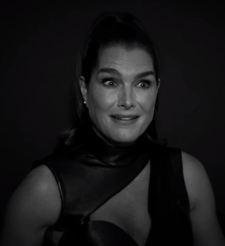 We caught up with the iconic Brooke Shields on the #LOVE18 shoot to talk first kisses, birthday parties with Andy Warhol and the best advice she's ever received... Film by Belle Smith Interview by Isabella Boreman